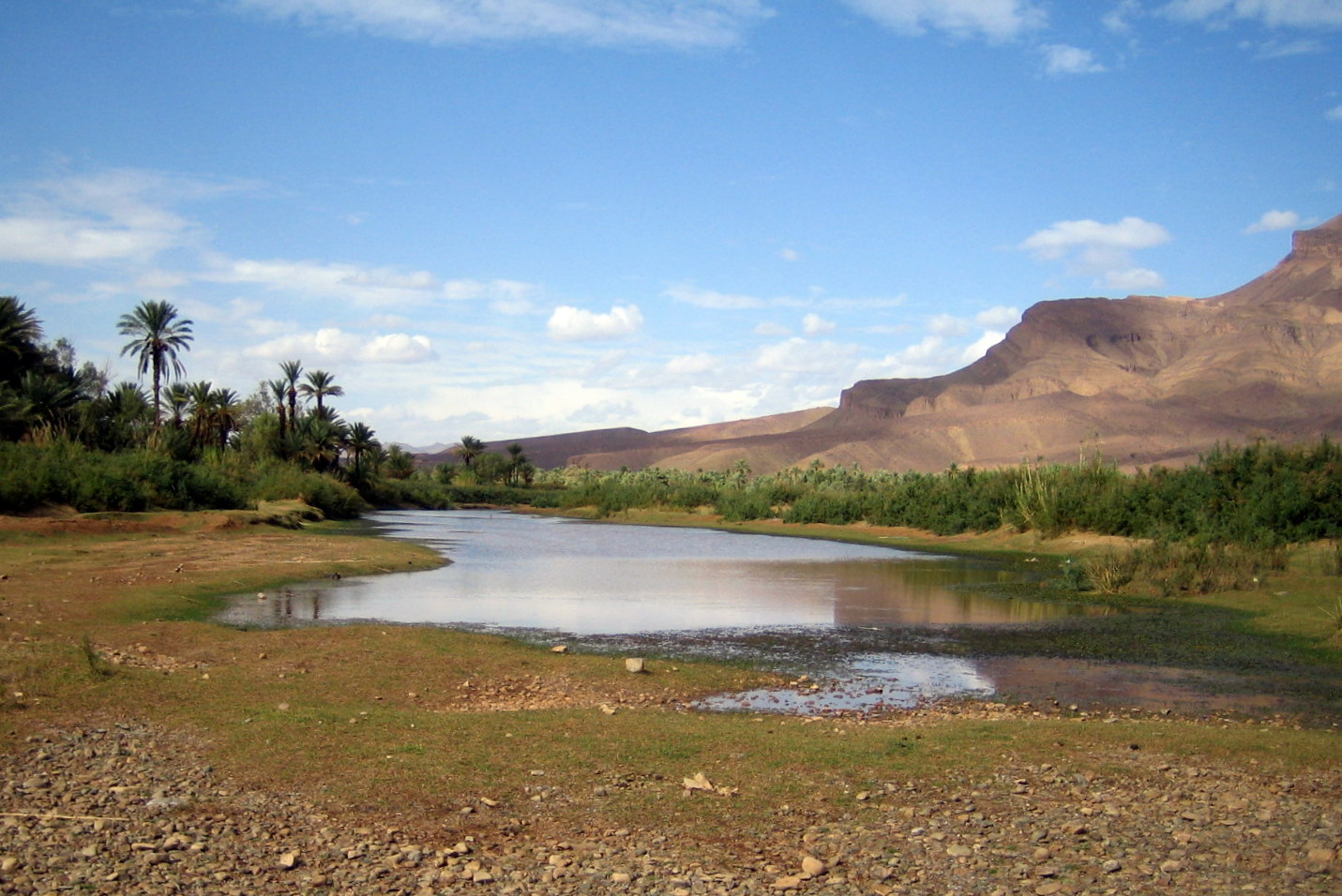 This is a FREE photo! Yes, all the photos in my gallery are free! :) You can download it at full resolution (check the “all sizes” option) and do whatever you want with it: share it, adapt it and/or combine it with other material and distribute the resulting works. Please give photo credits to “Carlos ZGZ” and put a link to this page. I’ll be very happy to know that this photo has been useful to someone, so don’t hesitate to tell me about your use (and I will place here a link to it if you wish)! __ ¡Esta es una foto LIBRE! ¡Sí, todas las fotos de mi galería son libres! :) Puedes descargártela en plena resolución (usa la opción “all sizes”) y hacer lo que quieras con ella: compartirla tal cual, modificarla a tu gusto y/o combinarla con otro material y distribuir el resultado. Por favor, si utilizas esta foto dale el crédito a “Carlos ZGZ” y coloca un enlace a esta página Me hace mucha ilusión saber que una de mis fotos le ha servido a alguien. Así que si es tu caso, ¡no dudes en decírmelo! (y si quieres, pondré un enlace a tu proyecto aquí).